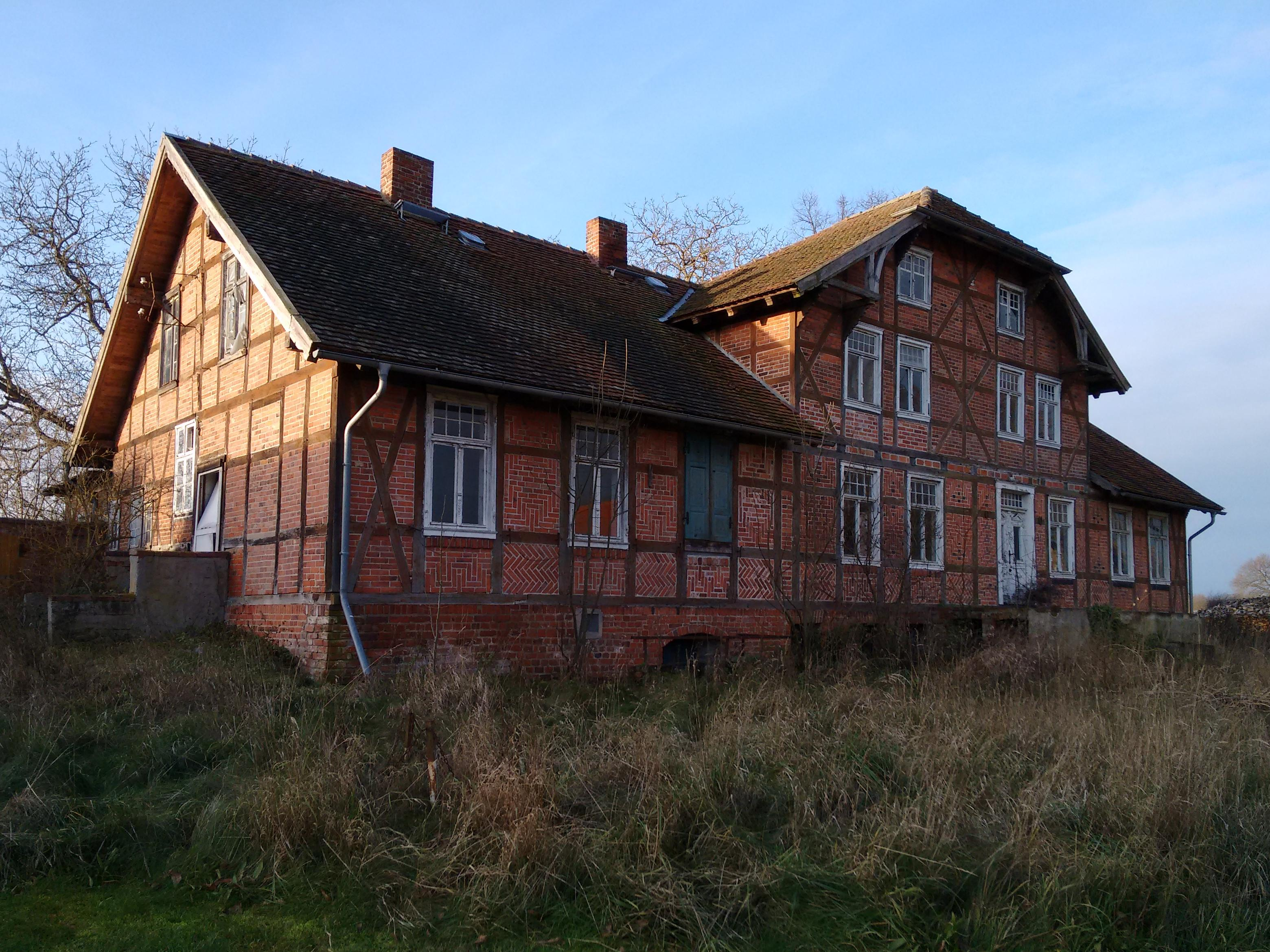 Manor in Wolterslage in Osterburg-Königsmark in Saxony-Anhalt, Germany